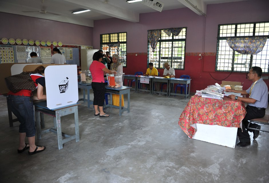 Malaysians cast their votes at a polling station during Malaysia General Election in Kuala Lumpur